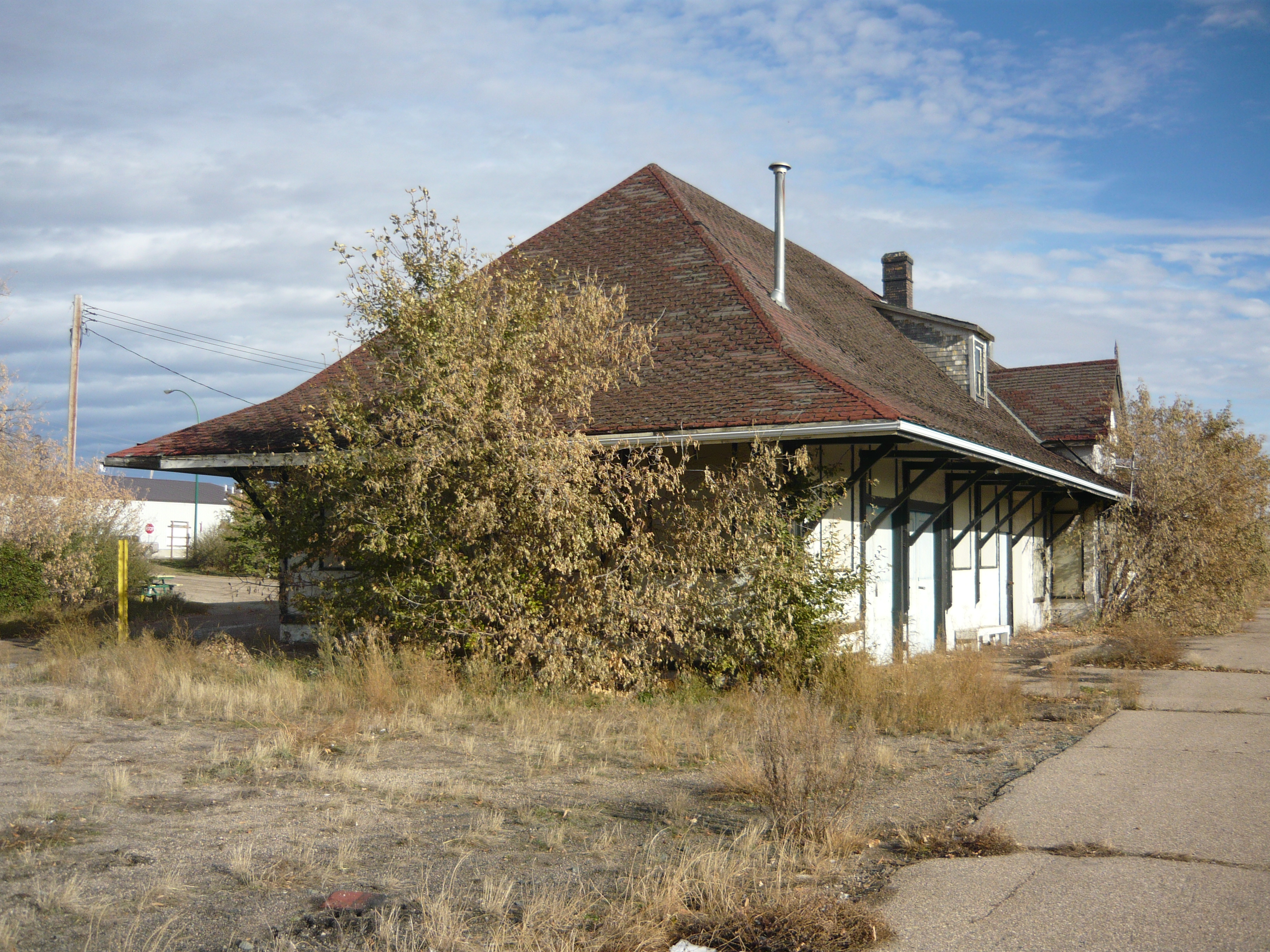 Biggar Railway Station in Biggar, Saskatchewan, Canada. Located at intersection of Main Street and First Avenue. Built 1909-1910 by the Grand Trunk Pacific Railway, later Canadian National Railways.